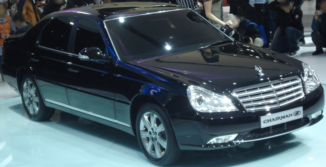 SsangYong Chairman H New Classic